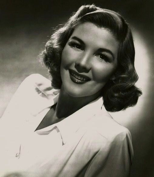 Veda Ann Borg in Blonde Savage - publicity still (original image cropped : see source)